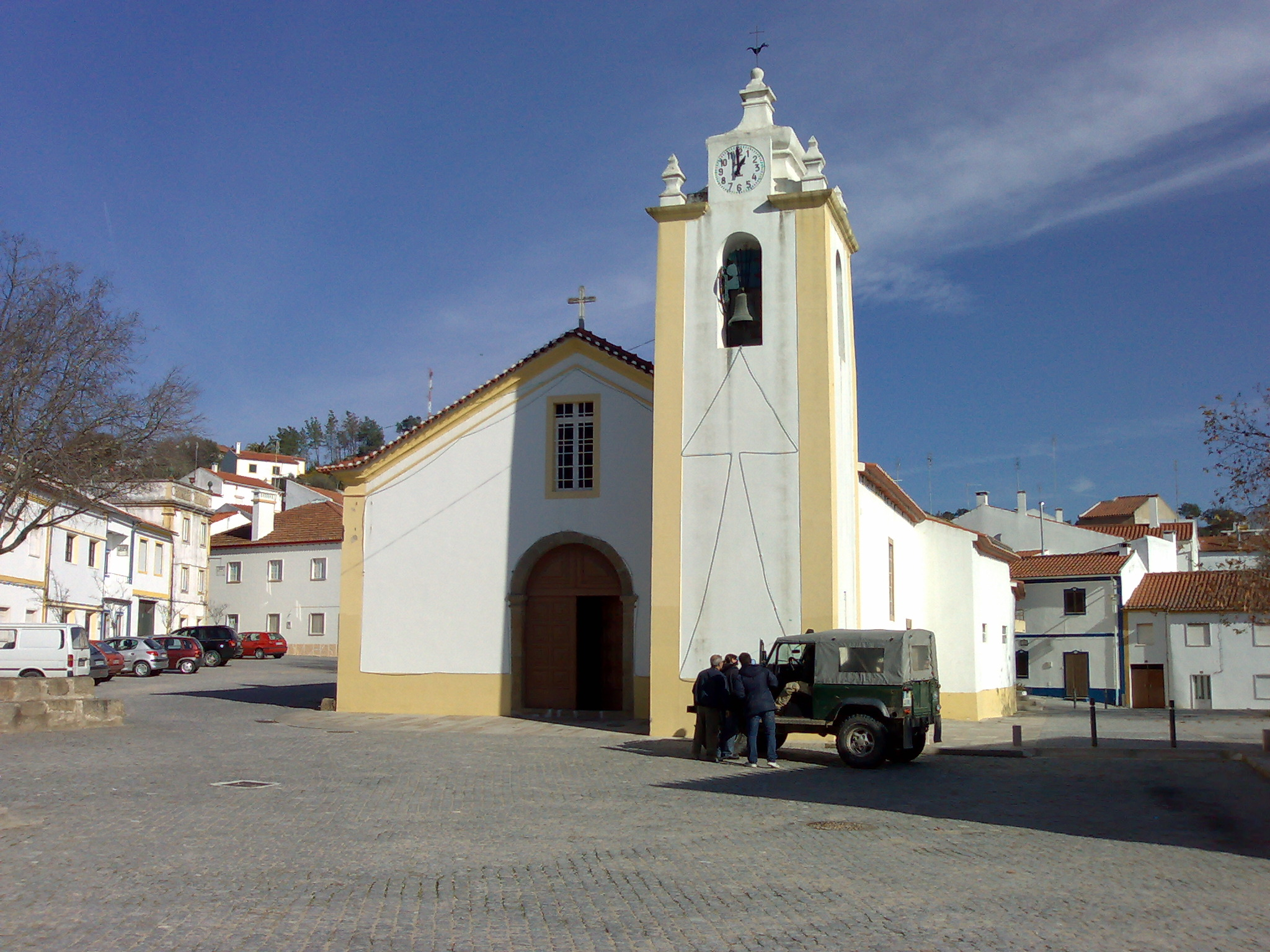 Church of Belver, Gavião, Portugal.